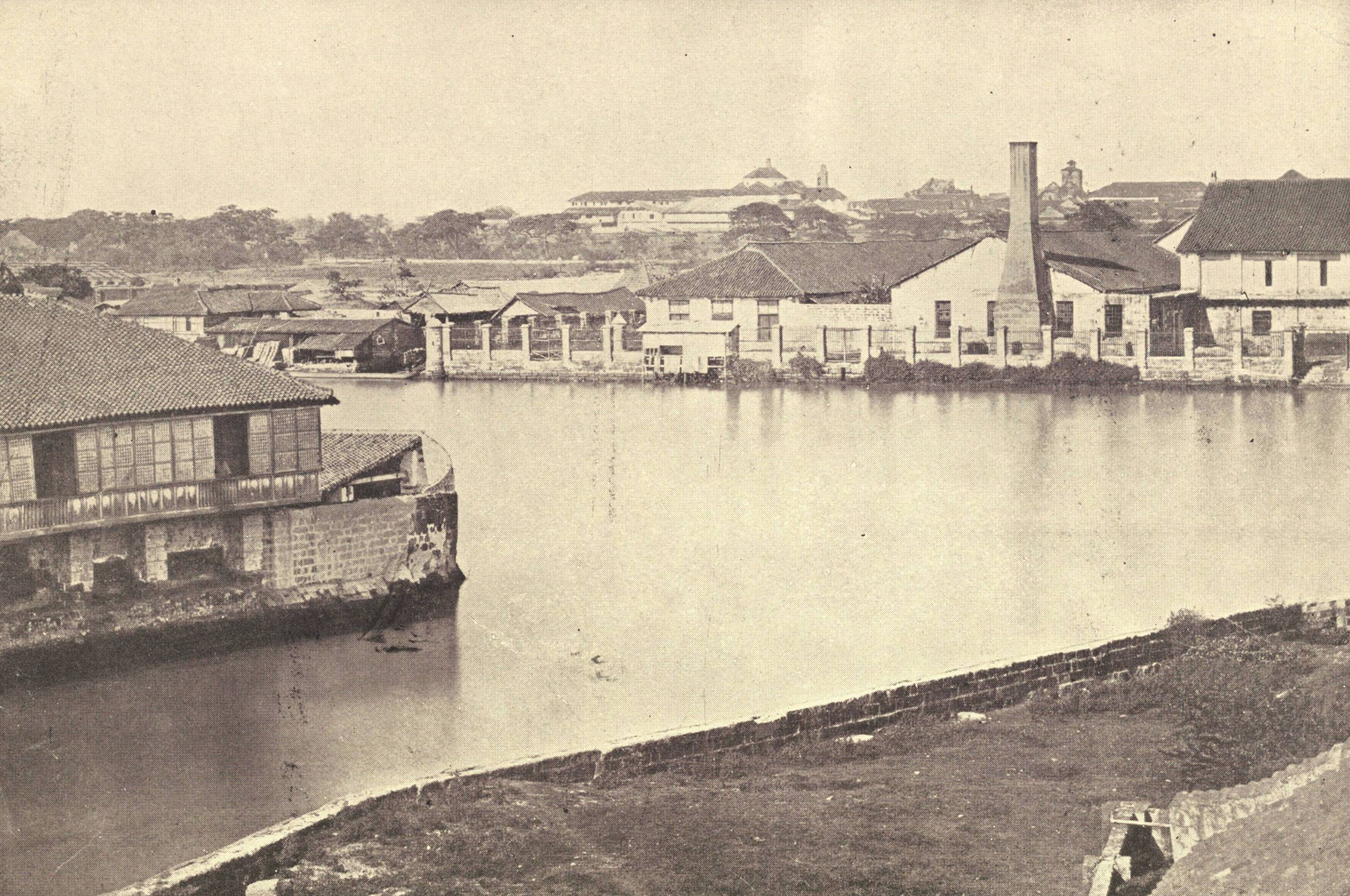 Original caption (cropped out): A bend in the Pasig River, Manila Description: (cropped out): In the foreground is an old cigar and cigarette factory. Farther up is a sugar house, where a poor grade of refining is done. The cathedral spire and dome of the Church of San Francisco, the oldest church in Manila rise in the distance.